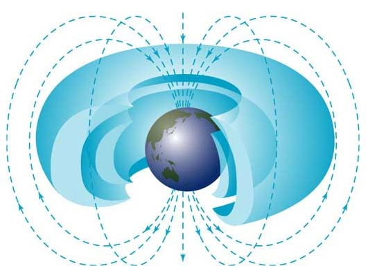 Artist representation of the radiation belts (in blue)